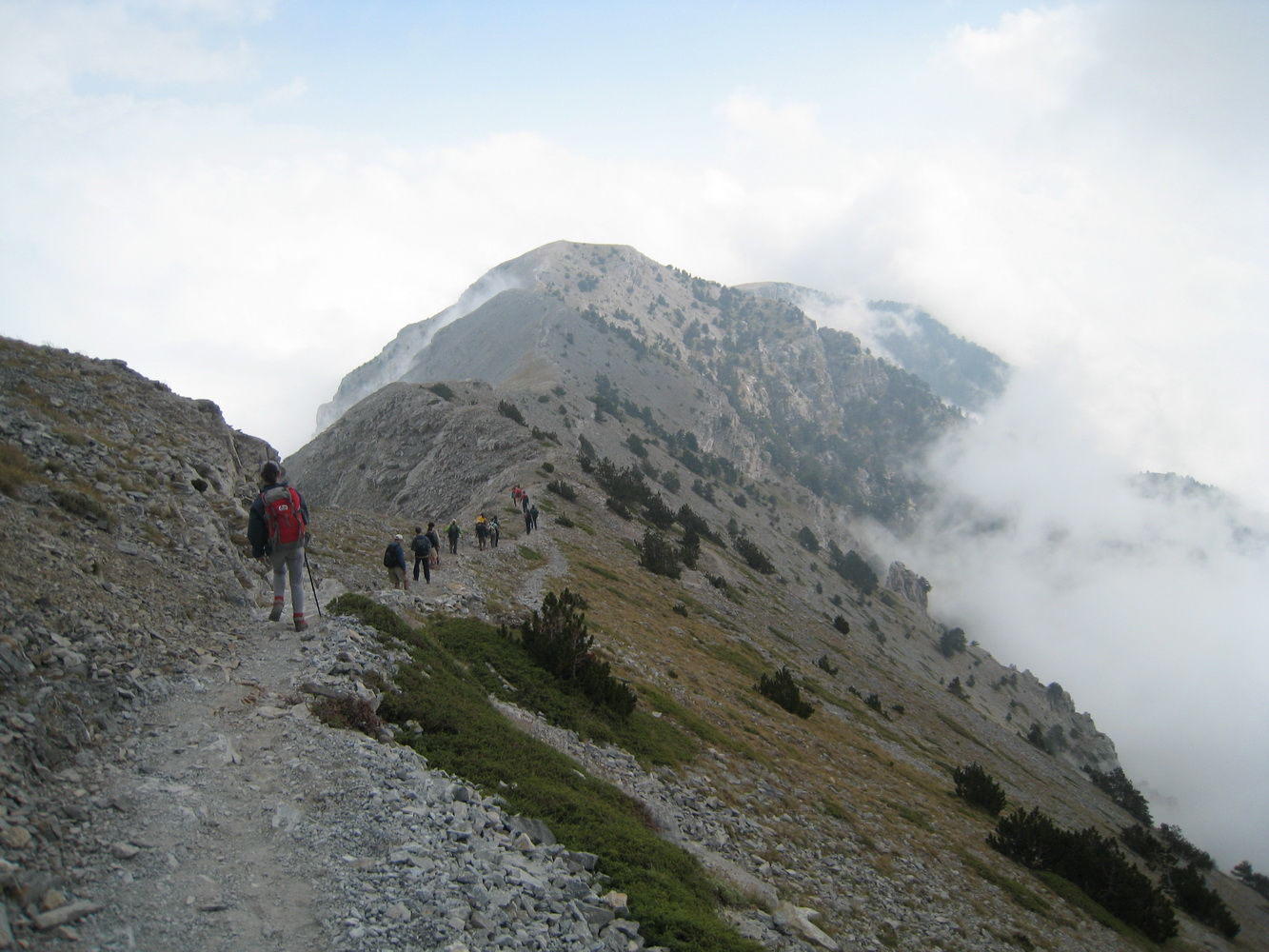 Olympos trekking path. Picture taken by (WT-shared) Handrian. Image copyright 2007 by (WT-shared) Handrian, dual-licensed under the CC-SA 1.0 (or later) and the GFDL. Taken by (WT-shared) Handrian.